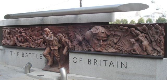 Photo taken by lonpicman Part of the Battle of Britain memorial Victoria Embankment London